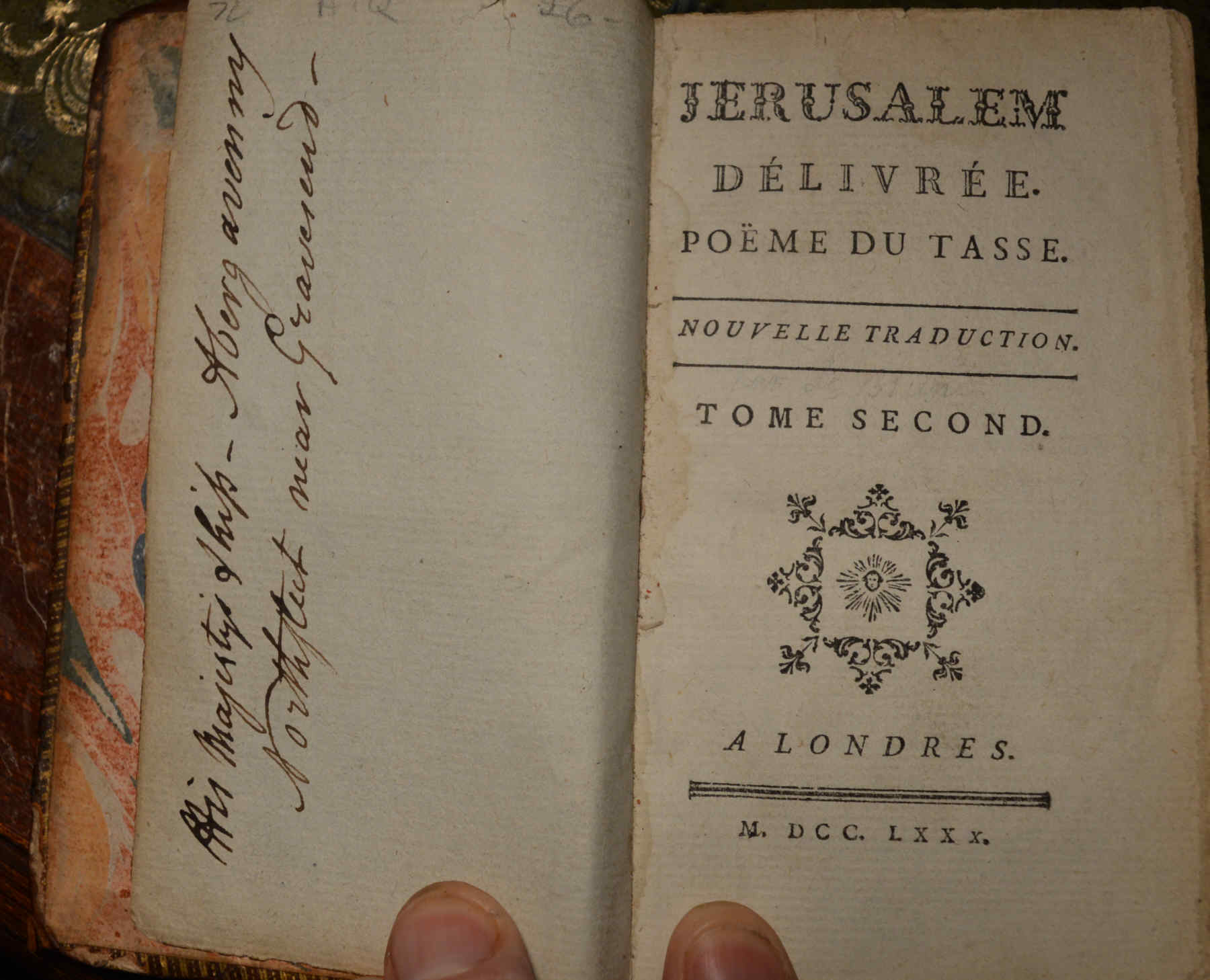 Inscription in book from the library of HMS Abergavenny. Inscription executed 1795-1807